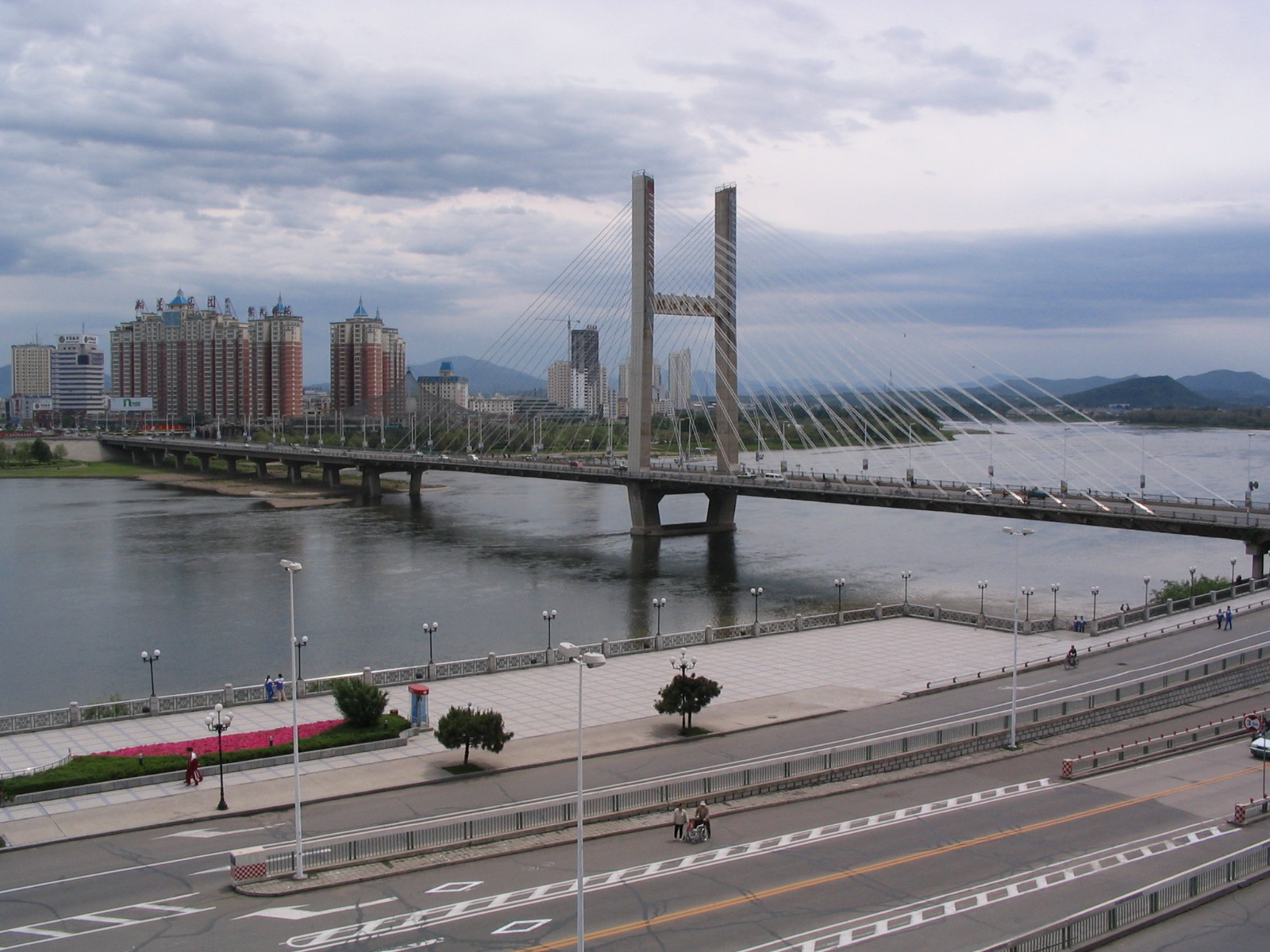 Linjiangmen Bridge